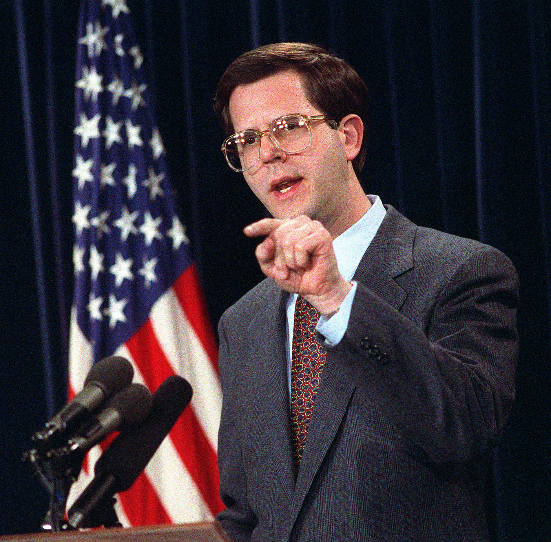 Pete Williams, journalist and former Assistant Secretary of Defense for Public Affairs. Here, he makes a point about Operation Desert Storm during a press briefing at The Pentagon.